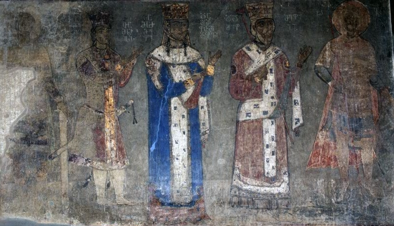 The mural in Betania Monastery, Georgia. The mural is called "ქტიტორები"